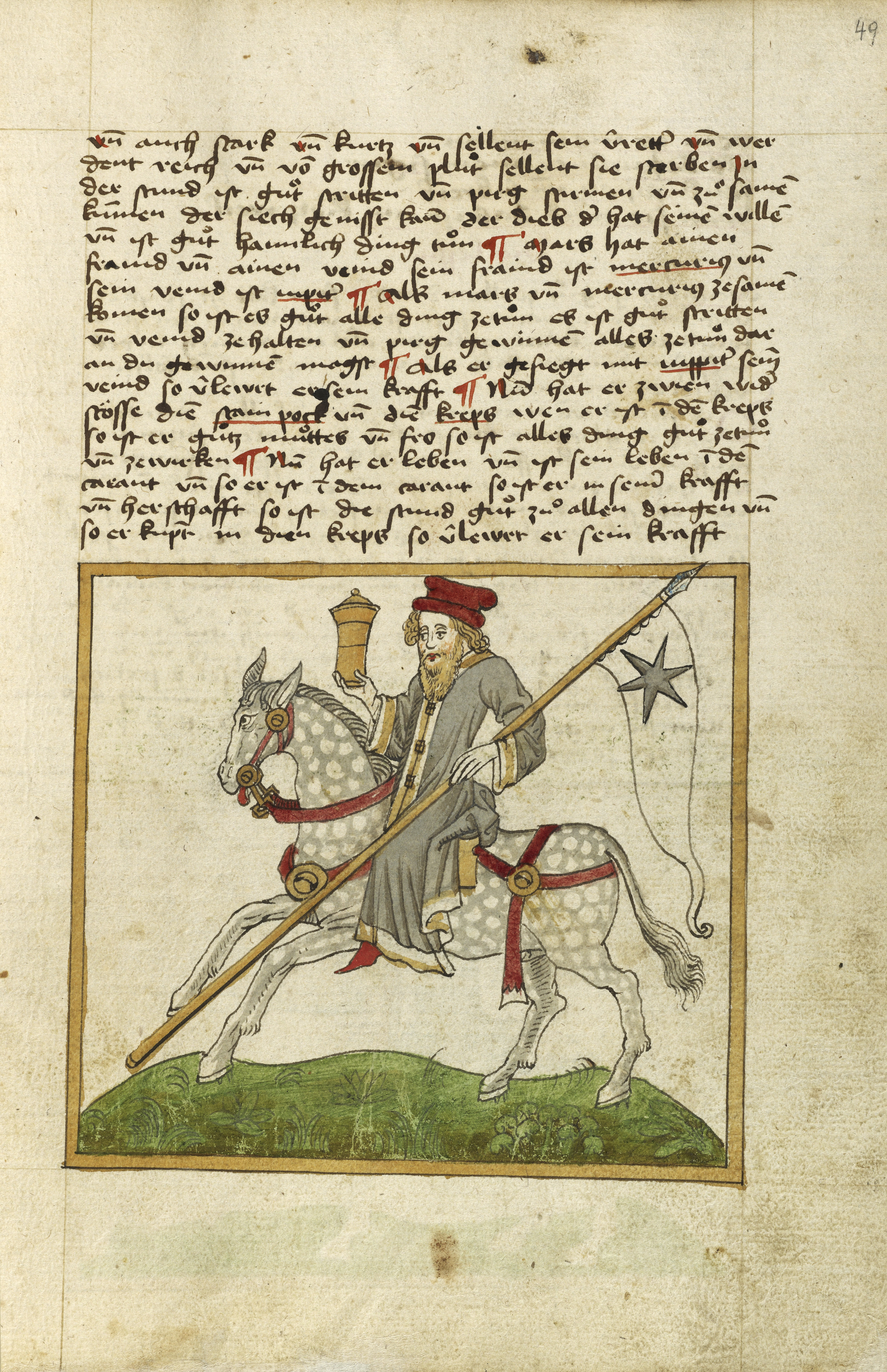 The Planet Mercury as a Doctor on Horseback; Unknown; Augsburg, Germany; shortly after 1464; Watercolor and ink on paper bound between original wood boards covered with original pigskin; Leaf: 30.6 x 22.1 cm (12 1/16 x 8 11/16 in.); Ms. Ludwig XII 8, fol. 49